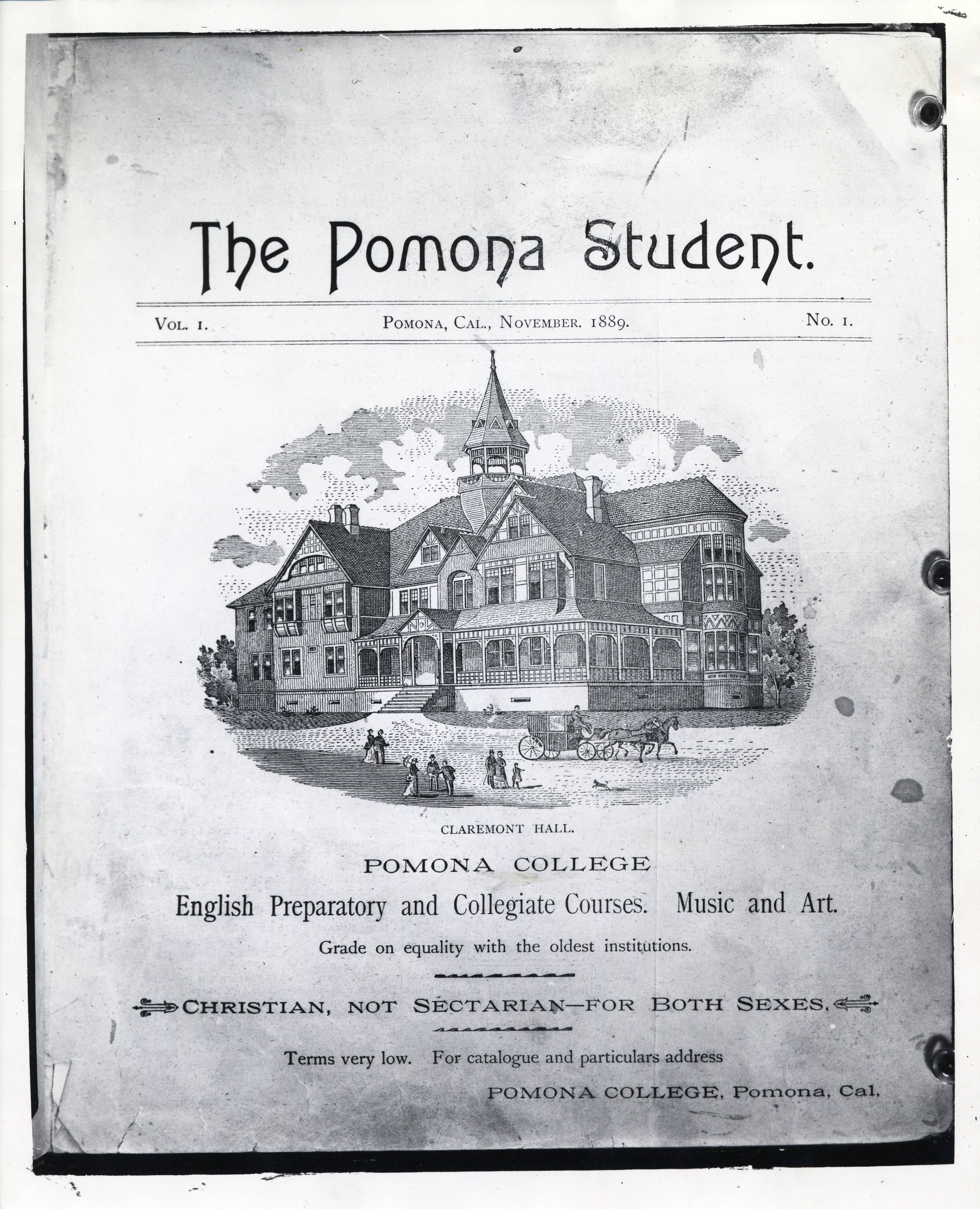 Cover of the first edition of the Pomona Student, November 1889. The newspaper would be renamed The Student Life a few years later.